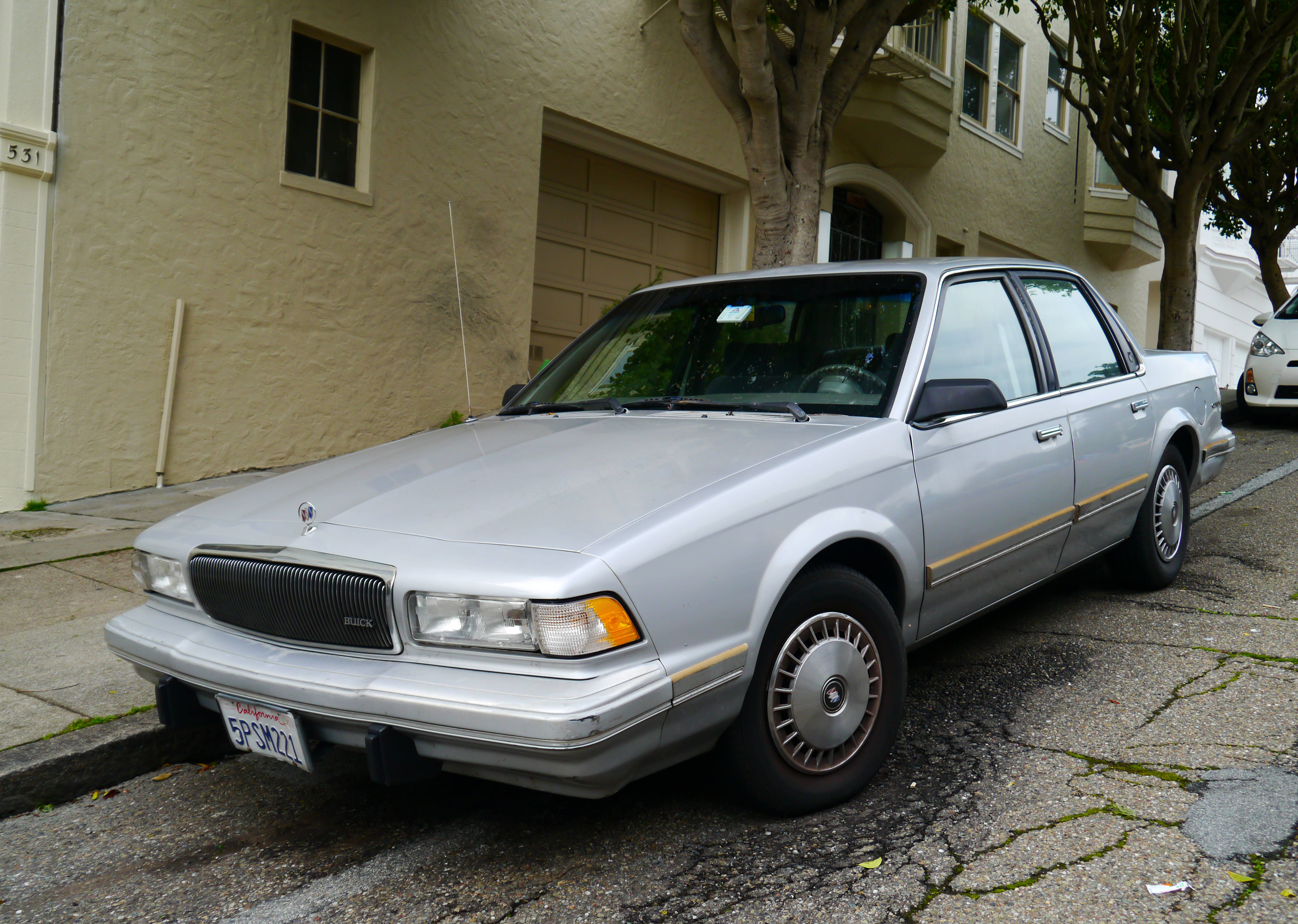 1994 Buick Century sedan.